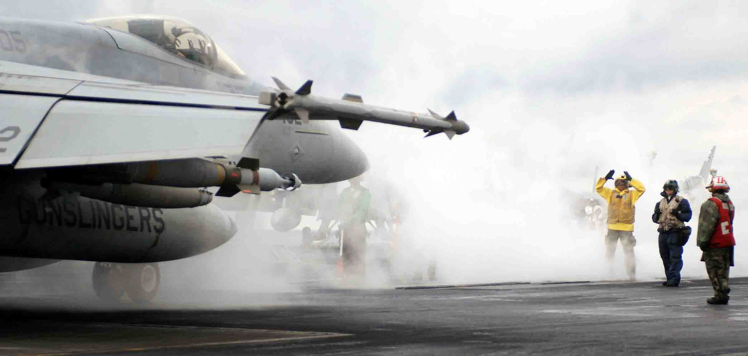 A Boeing F/A-18E Hornet attached to the U.S. Navy strike fighter squadron VFA-105 Gunslingers gets taxied onto the catapult prior to launch during flight operations aboard the nuclear powered aircraft carrier USS Harry S. Truman (CVN-75) on 3 January 2008. Truman and embarked Carrier Air Wing Three (CVW-3) were underway on a scheduled deployment to the Perian Gulf. The F/A-18E is armed with a JDAM bomb, a laser-guided bomb, and a AIM-9X Sidewinder air-to-air-missile.